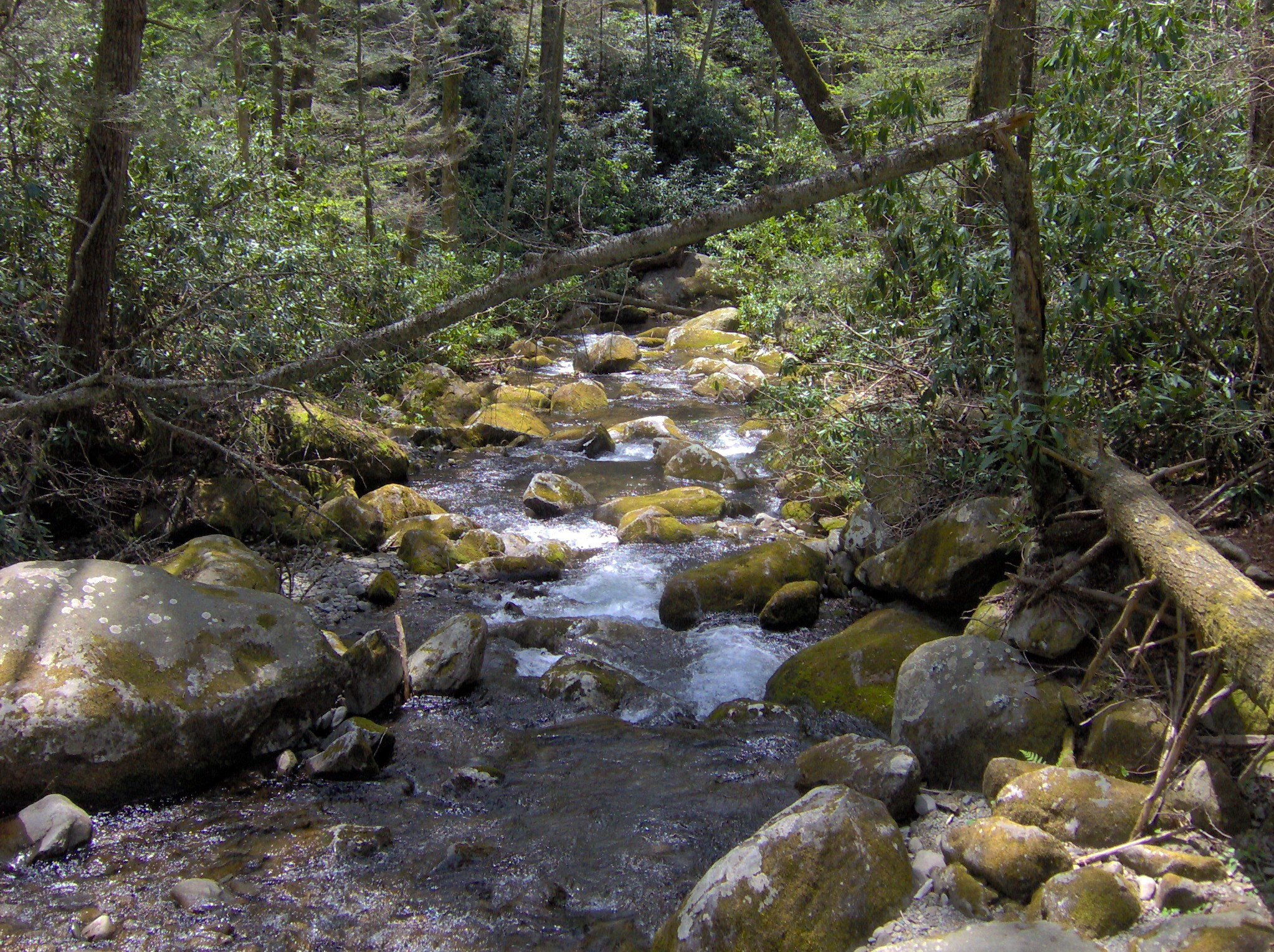 Indian Camp Creek, viewed from the footbridge along the Maddron Bald Trail, in the Great Smoky Mountains National Park of Cocke County, Tennessee, in the southeastern United States.